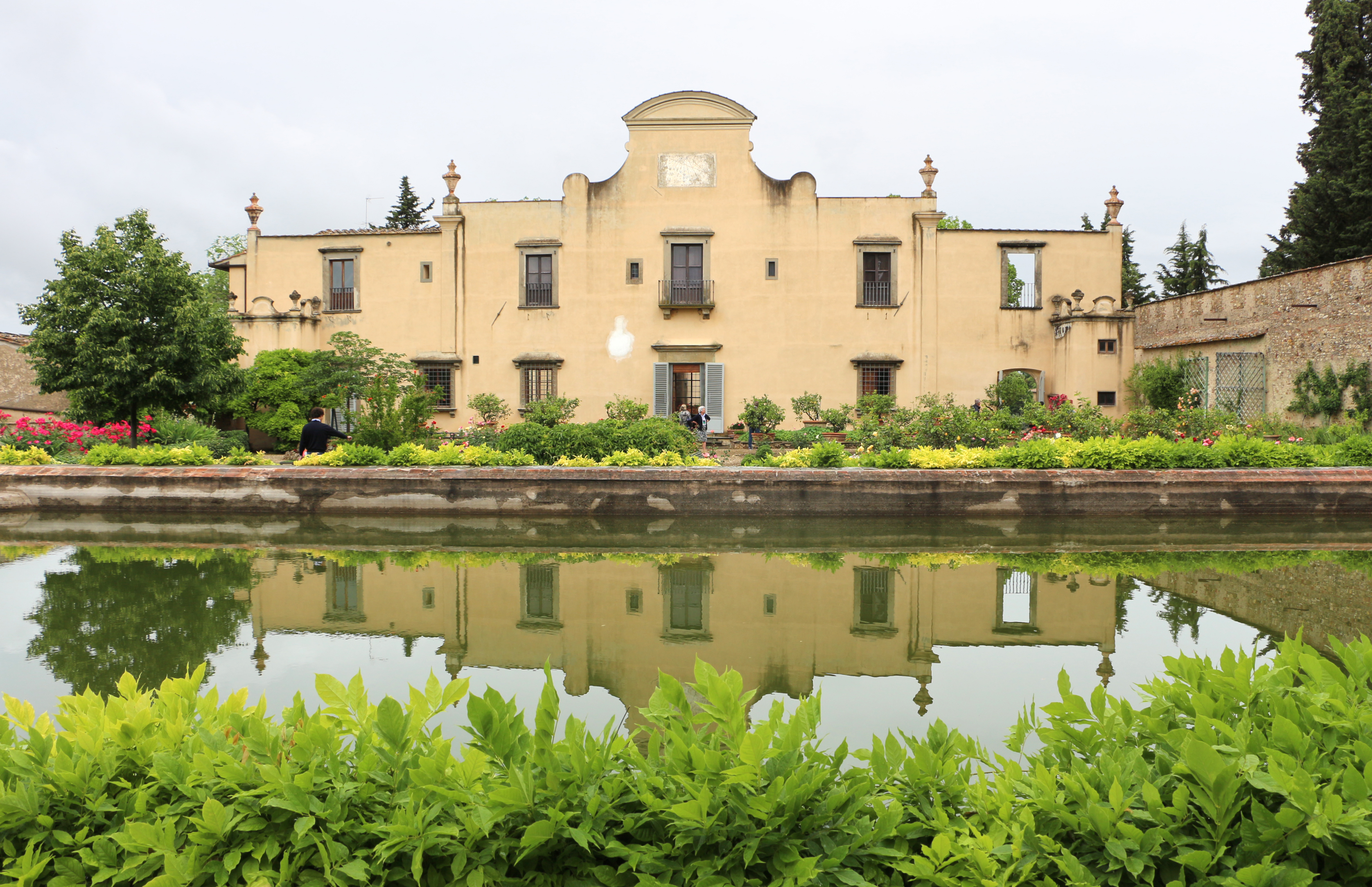 Villa del Cigliano